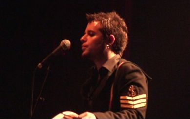 Emre Aydin at Cologne, Germany, on stage.